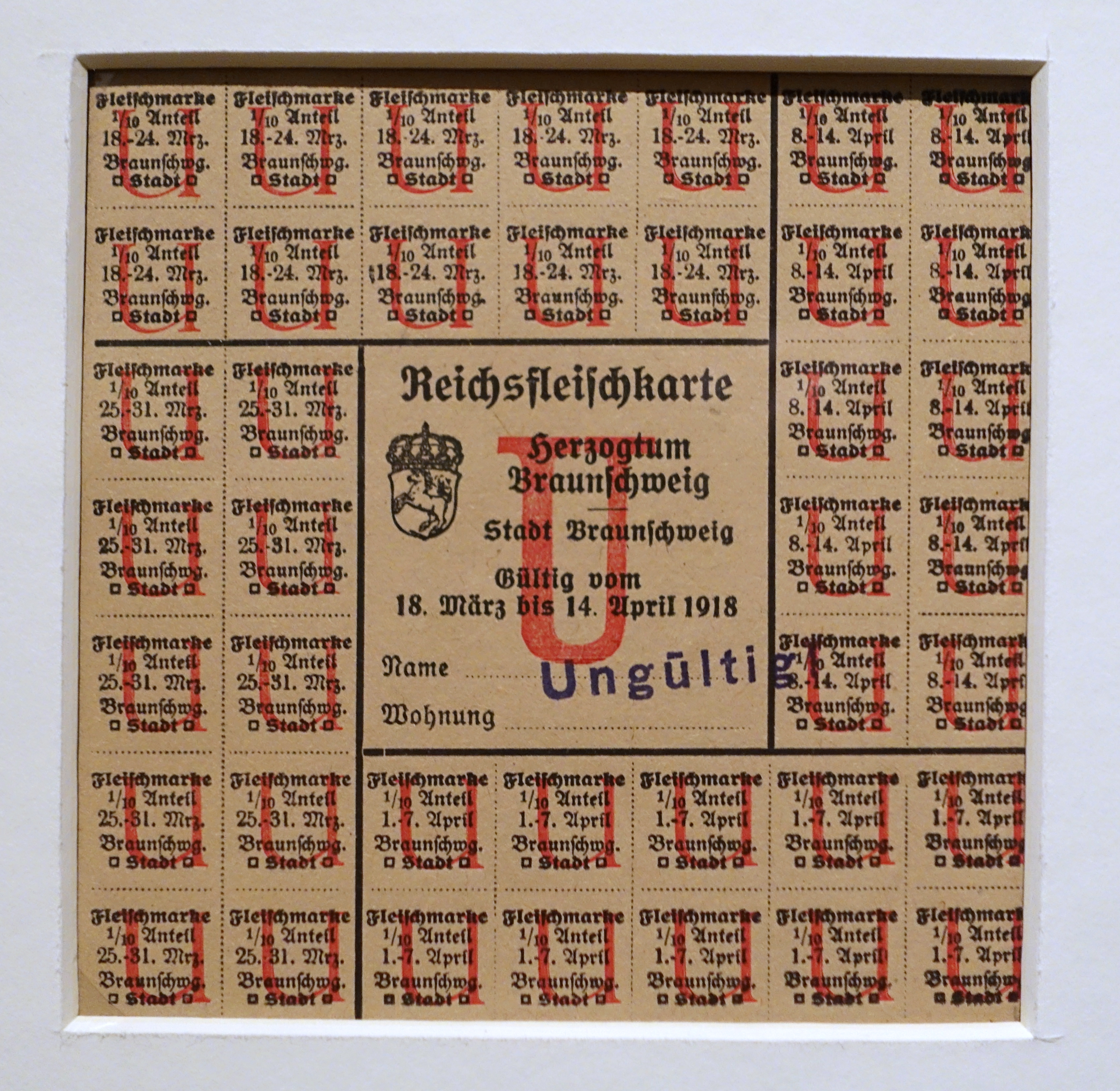 German ration stamps for meat from 1918 (World War I). Exhibit in the Braunschweigisches Landesmuseum, Braunschweig, Germany. This work is in the public domain because the creator(s) died more than 70 years ago.